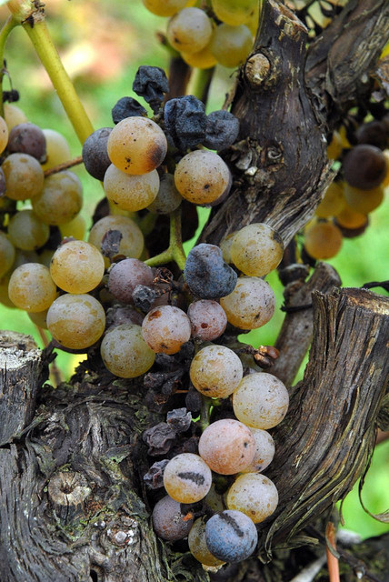 Jurançon acquired its celebrity while being used for the baptism of King Henri IV. The vines grow on steep slopes such as in Hermitage, undergoing both oceanic and mountainous climates. The vine growers use traditional grapes such as Lauzet, Petit and Grand Mansengs and Courbu. Sweet Jurançon is a golden wine with exotic fruits and honey aromas. It can age for a very long time. REF: Wikipedia